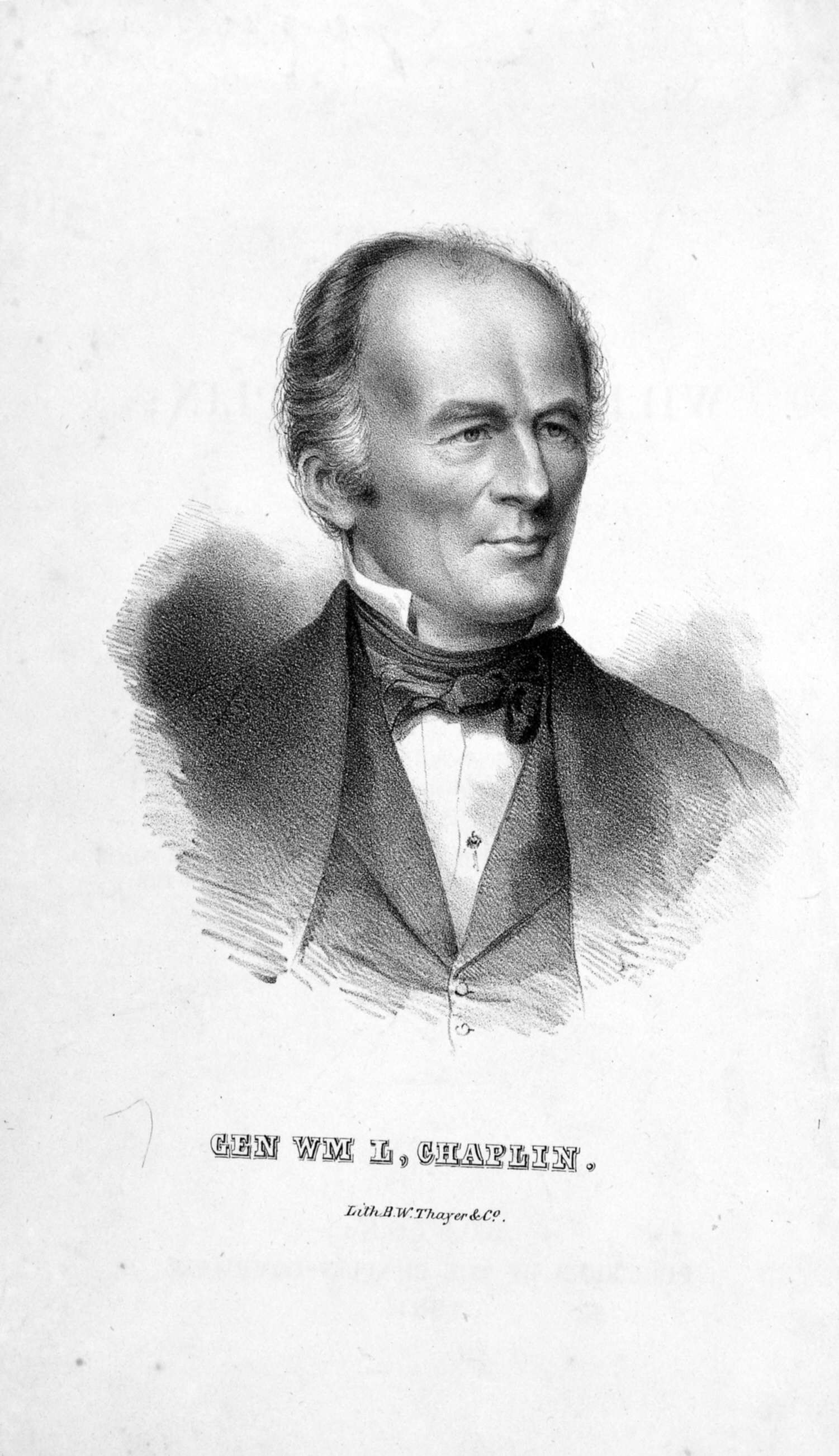 This is an image of the American abolitionist William Lawrence Chaplin from a publication titled The case of William L. Chaplin : being an appeal to all respecters of law and justice, against the cruel and oppressive treatment to which, under color of legal proceedings, he has been subjected, in the District of Columbia and the state of Maryland, published by the "Chaplin Committee" in Boston in 1851. The Library of Congress "American Memory" entry reads, "Chaplin was arrested in Aug. 1850 for having "abducted, stolen, taken, and carried out from the city of Washington" two fugitive slaves. Additional charges were brought against him for assaulting his arrestors. The Chaplin Fund Committee was organized to raise money for his bail and defense."